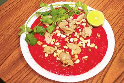 Tiet Canh original